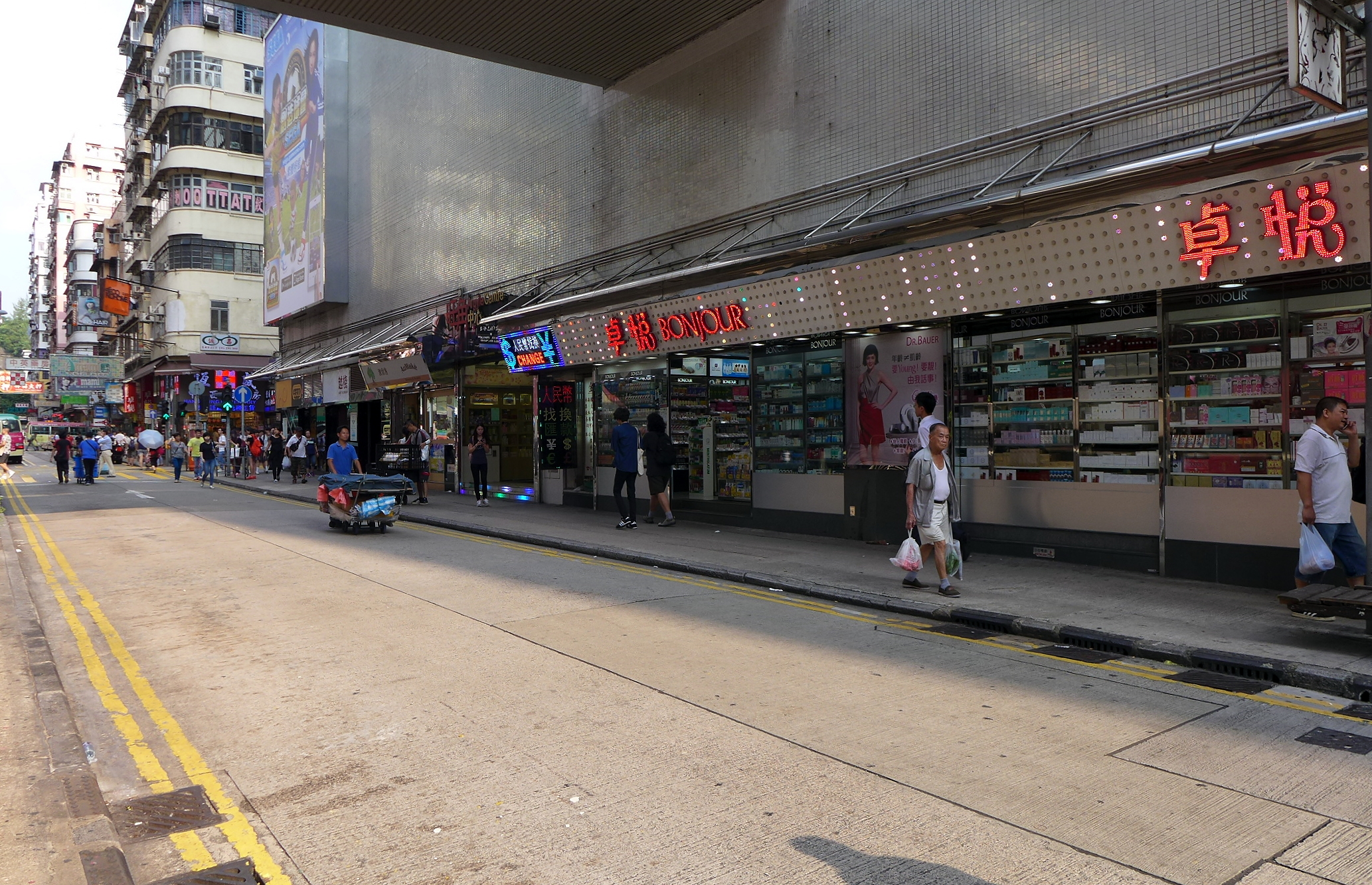 Fife Street